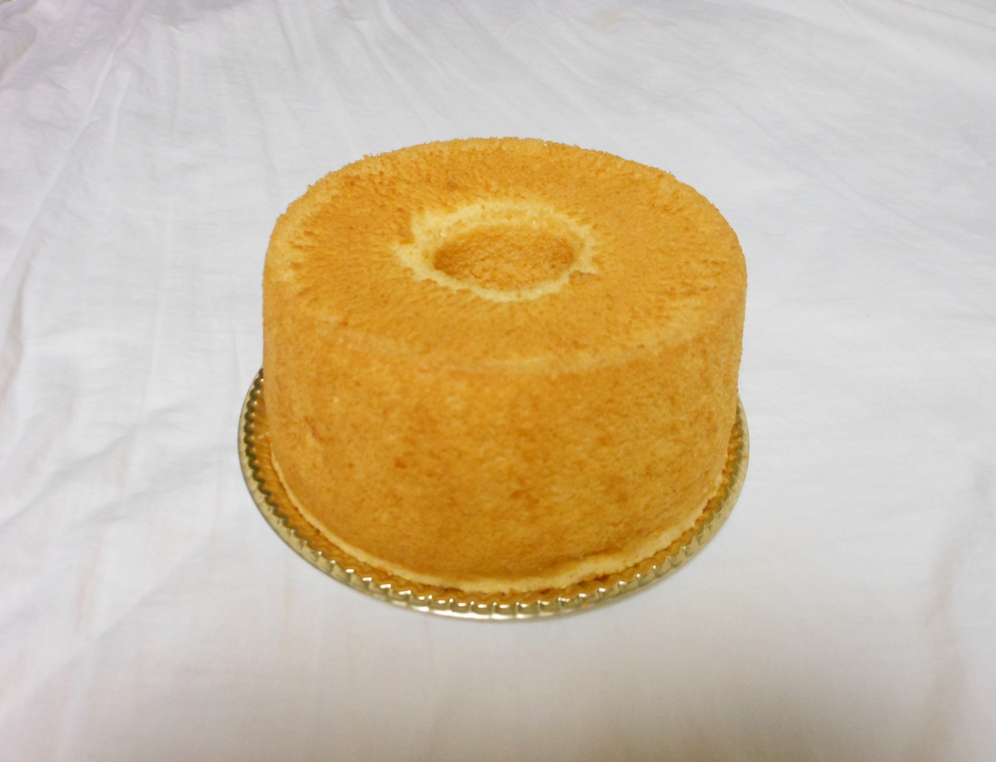 This is Hojomai Chiffon Cake which was made by La Cote d' Azure (Cake shop in Tsukuba, Ibaraki, Japan).